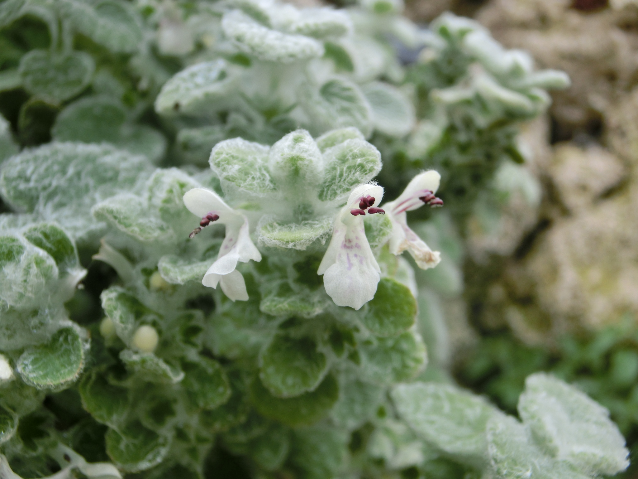 Stachys saxicola, cultured plant in Davies Alpine House, Kew Botanical Gardens.